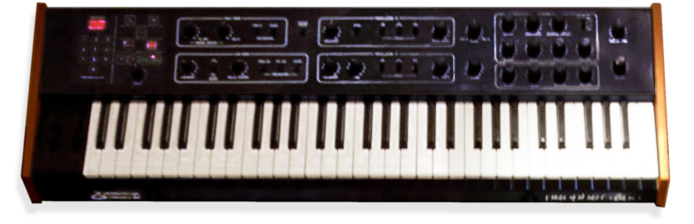 Sequential Circuits Prophet 600 N7Studio